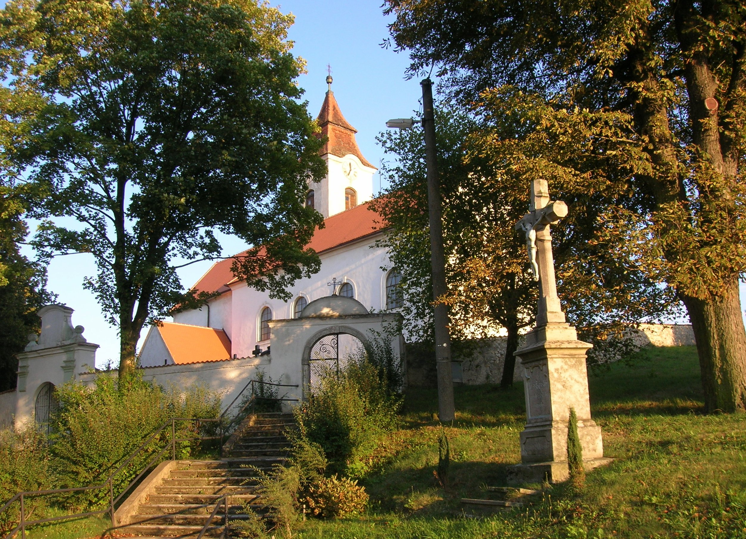 Horní Újezd, Třebíč District. Church of SS Peter and Paul